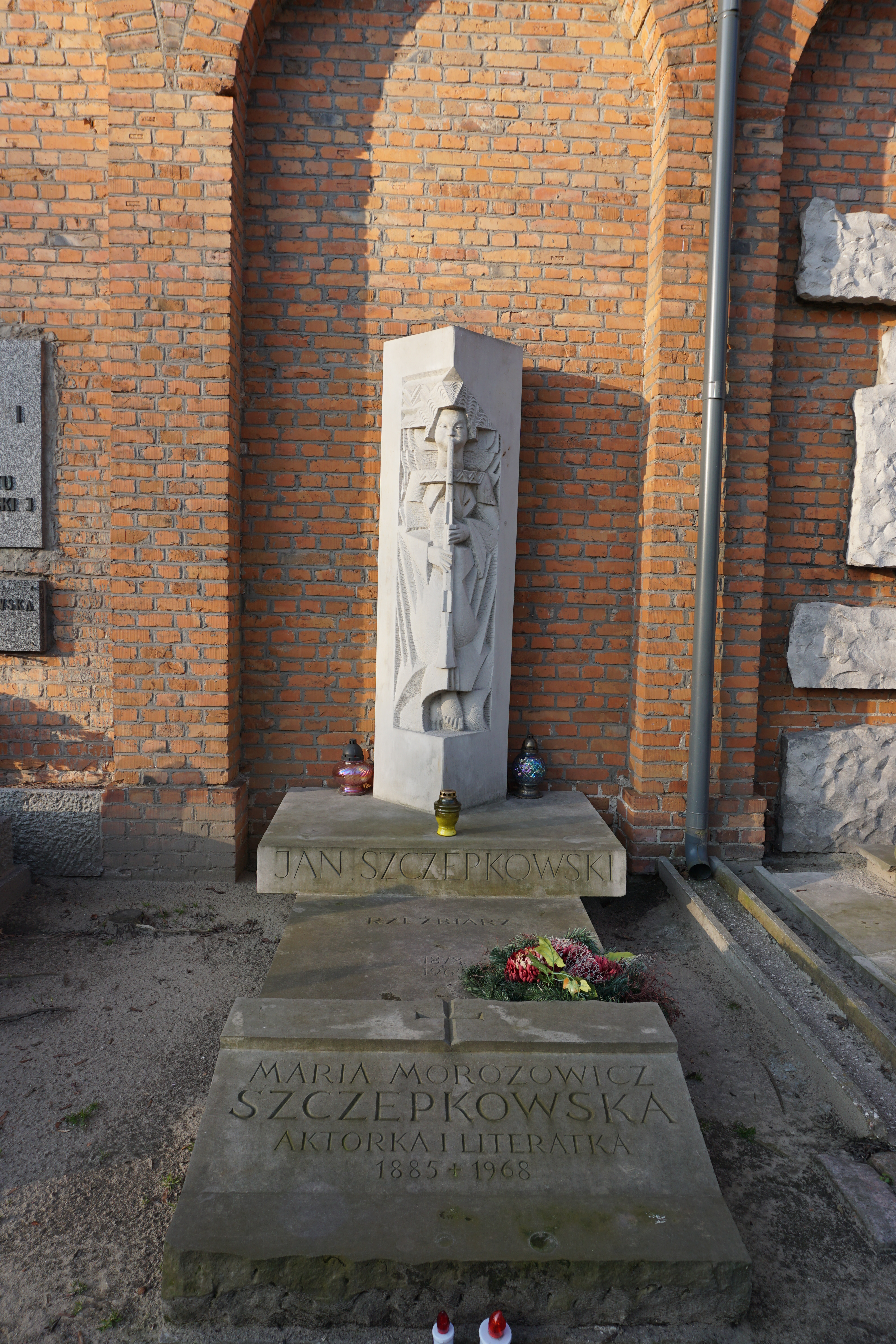 The grave of Maria Morozowicz-Szczepkowska at the Powązki Cemetery (Avenue of Deserved, grave 135)